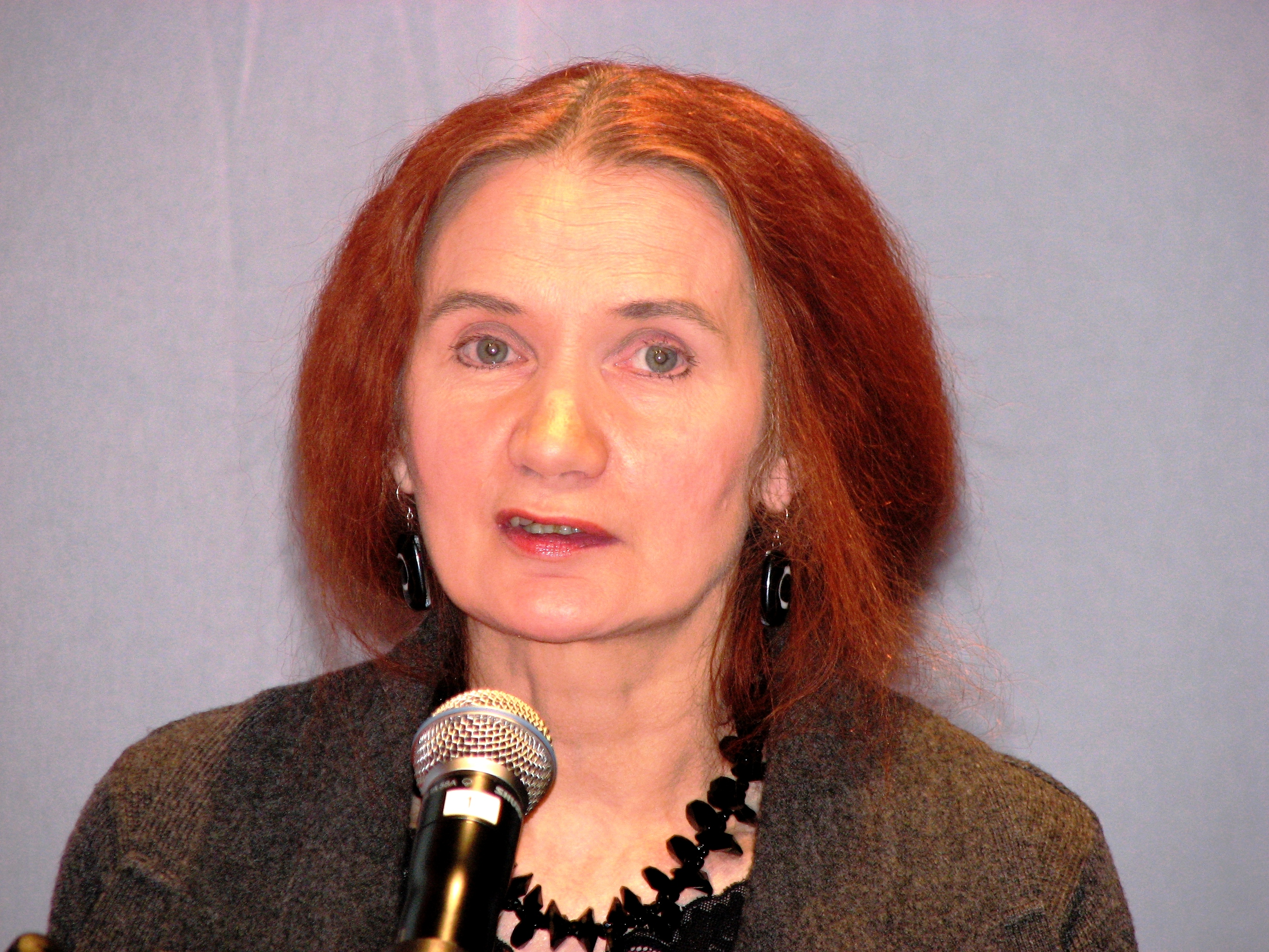 Viive Noor performing in Baltic Book Fair 2010